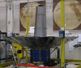 TacSat-4 with deployed UHF antenna during testing